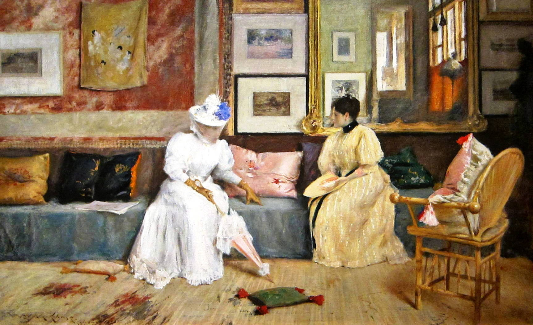 William Merritt Chase's art